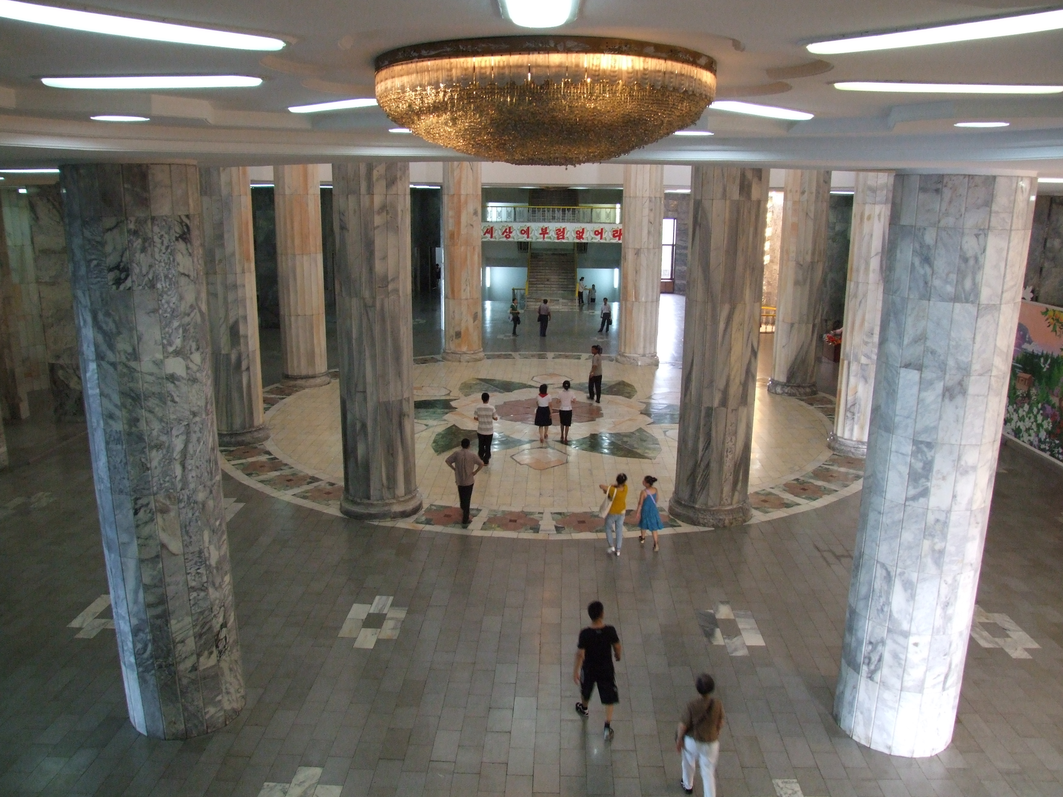 Mangyongdae Children's Palace